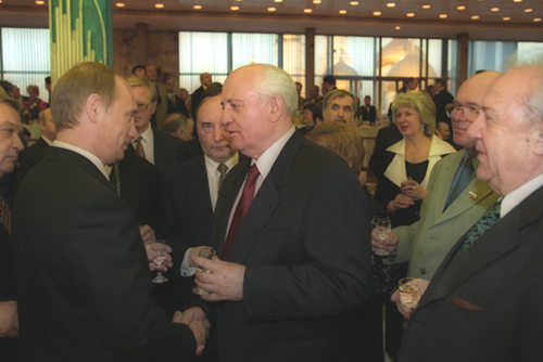 THE GRAND KREMLIN PALACE, MOSCOW. Vladimir Putin and Mikhail Gorbachev, the first and last President of the Soviet Union, at a party after the inauguration ceremony.